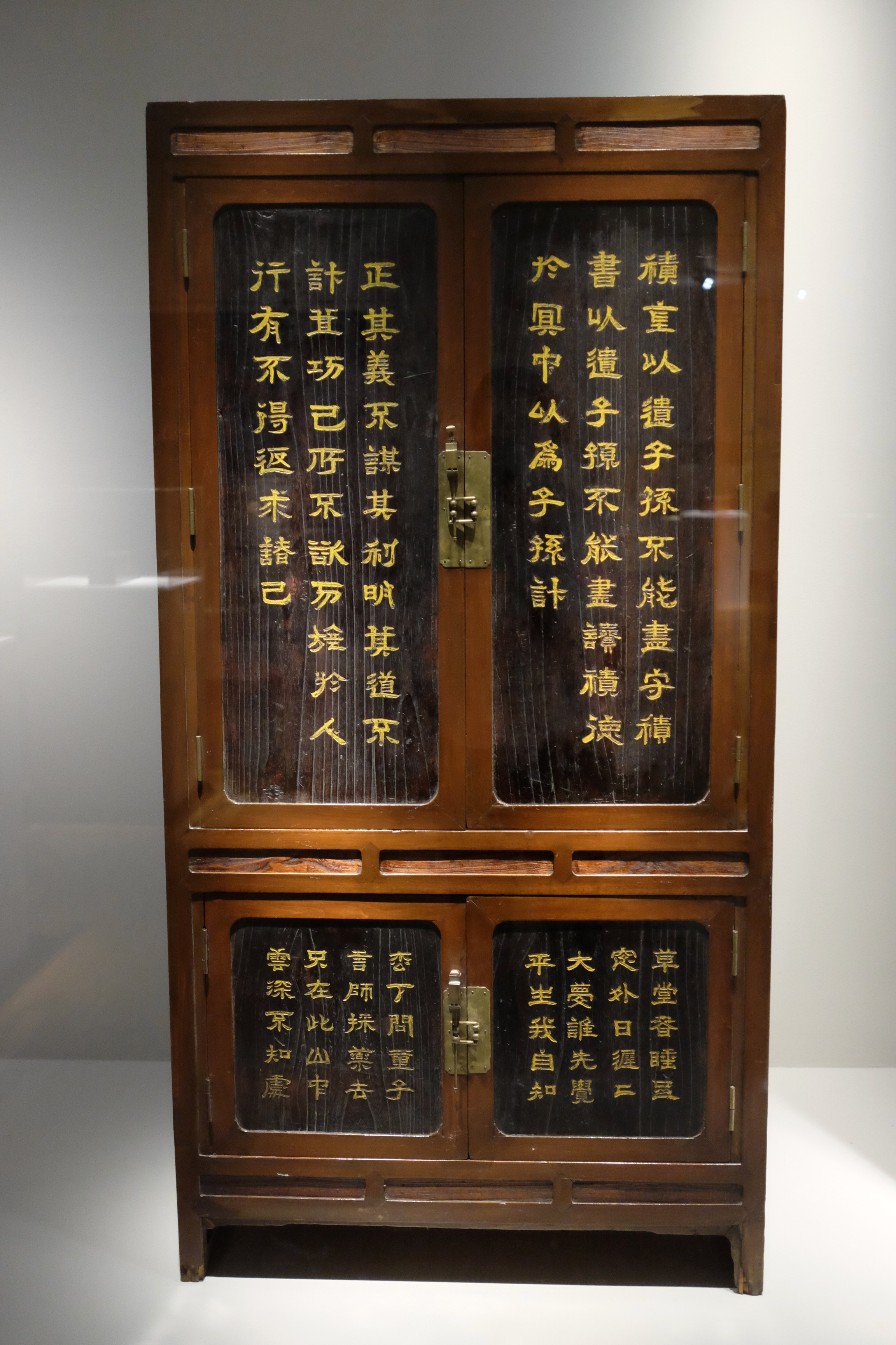 Seongmyeongdaekjang, Ewha Womans University Museum, 19th century.